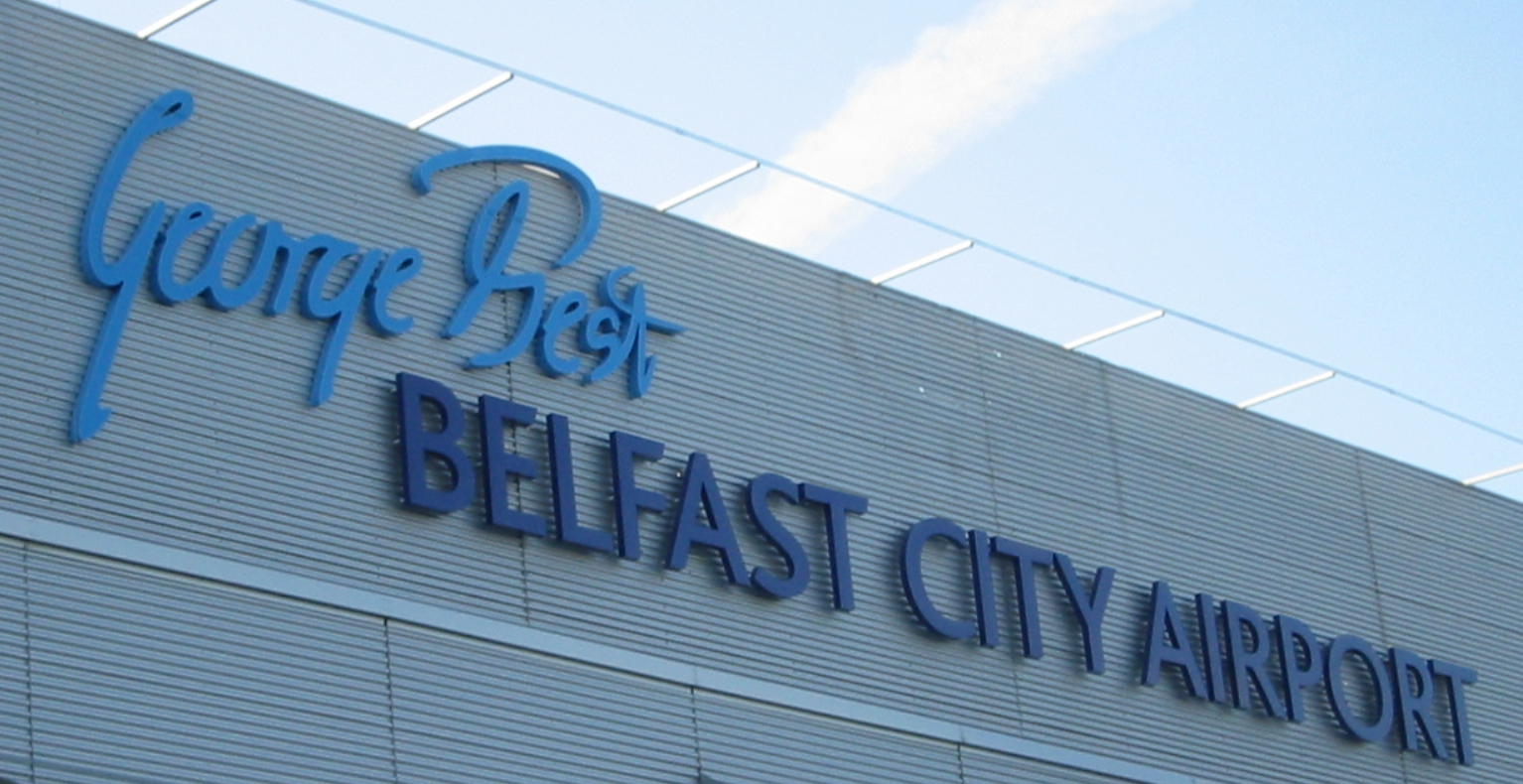 Photograph of the new signage at the renamed George Best Belfast City Airport. Taken by Alan in Belfast on 22 May 2006.